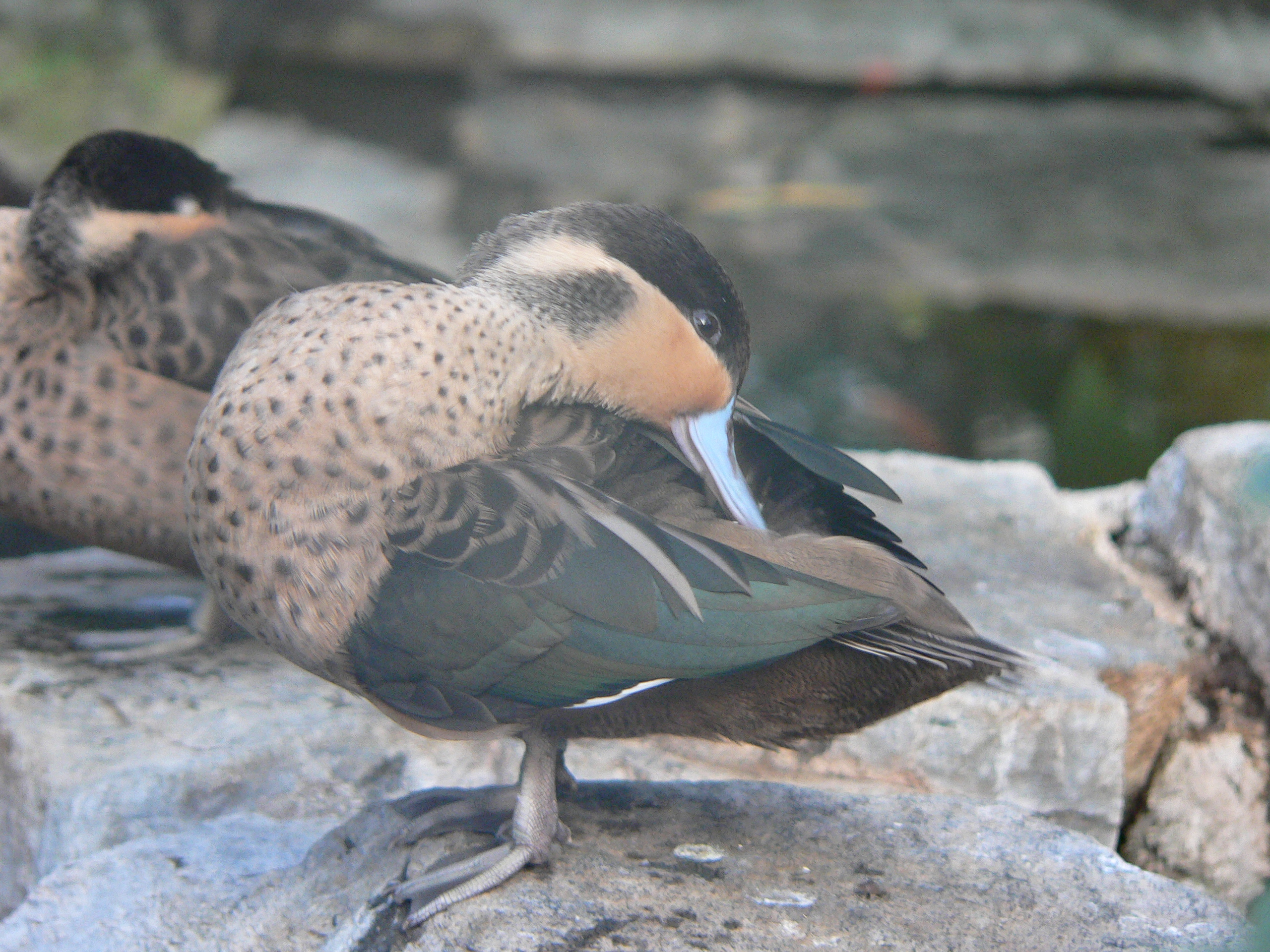 Hottentott Teal